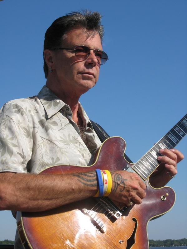 Steven Springer Tropicooljazz